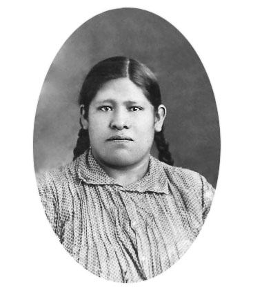 Carmen Gómez, inventor of the "huarache"